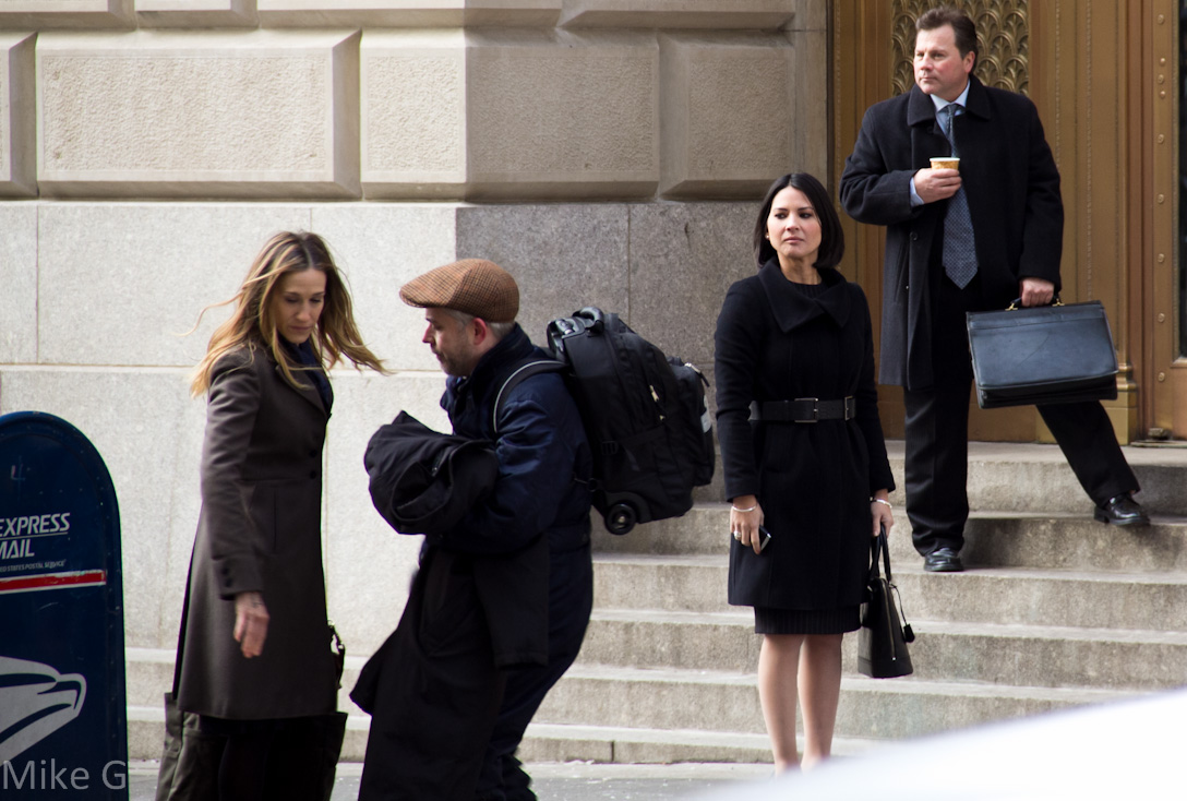 Not looking a bit bothered by Ricky Gervais’s Golden Globe joke about Sex and the City 2, Sarah Jessica Parker and her co-star Olivia Munn kicked off a rather cold Monday ready to work. The ladies are currently on the set of their movie, “I Don’t Know How She Does It” on lower Broadway near Wall Street on Monday, January 17th, 2011. It’s the first day of shooting of this comedy adaptation of Allison Pearson’s hit British book which centers on the life of Kate Reddy (played by SJP) , a finance executive who is the breadwinner for her husband and two kids. Also starring are Pierce Brosnan, Christina Hendricks, Seth Meyers, and Kelsey Grammer.